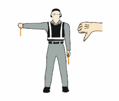 MARSHALLING SIGNALS from a signalman/marshaller to an aircraft / STANDARD EMERGENCY HAND SIGNALS. Description: "Negative" (technical/servicing communication signal). Hold right arm straight out at 90 degrees from shoulder and point wand down to ground or display hand with ‘thumbs down’; left hand remains at side by knee.